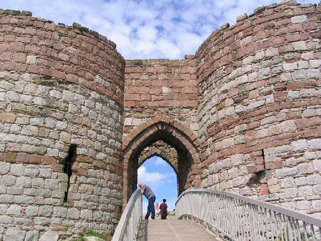 Beeston Castle Gatehouse. This shot shows the bridge for the entrance to Beeston Castle's inner keep.